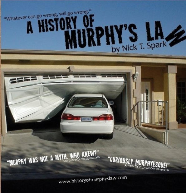 Book cover for A History of Murphy's Law (Nick T. Spark)